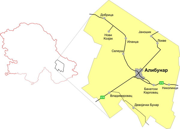 Map of Alibunar municipality, Vojvodina, Serbia Serbian: Мапа општине Алибунар, Војводина, Србија